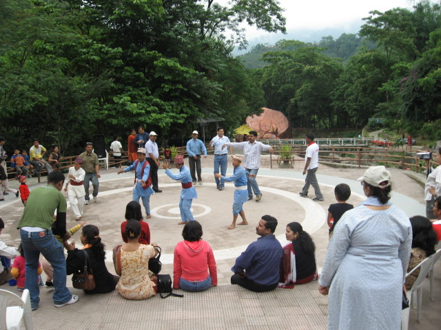 Own photograph